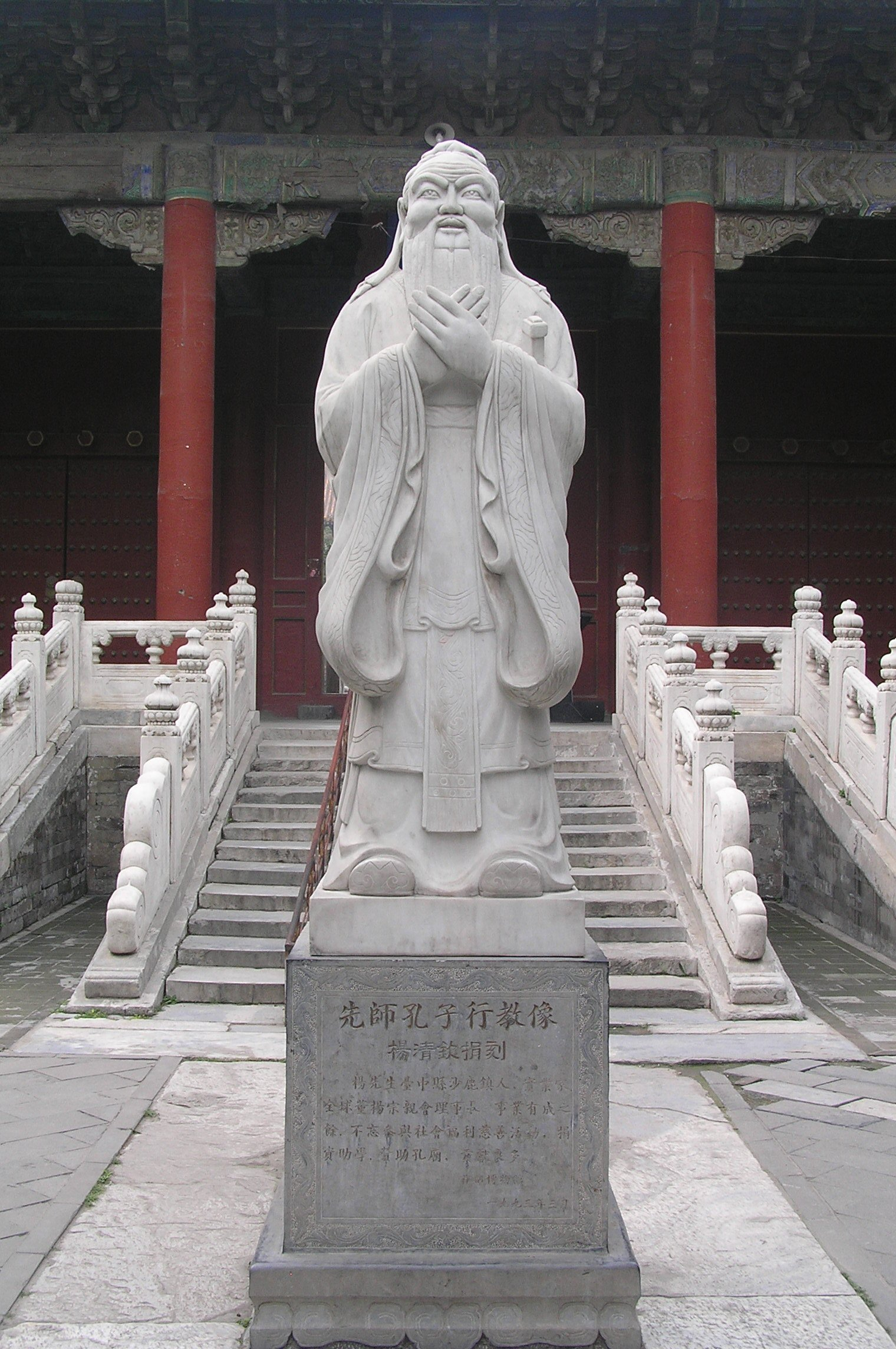 Confucius statue at the Confucius Temple (Beijing, China) Author: Mr. Tickle Date: 07/19, 2005